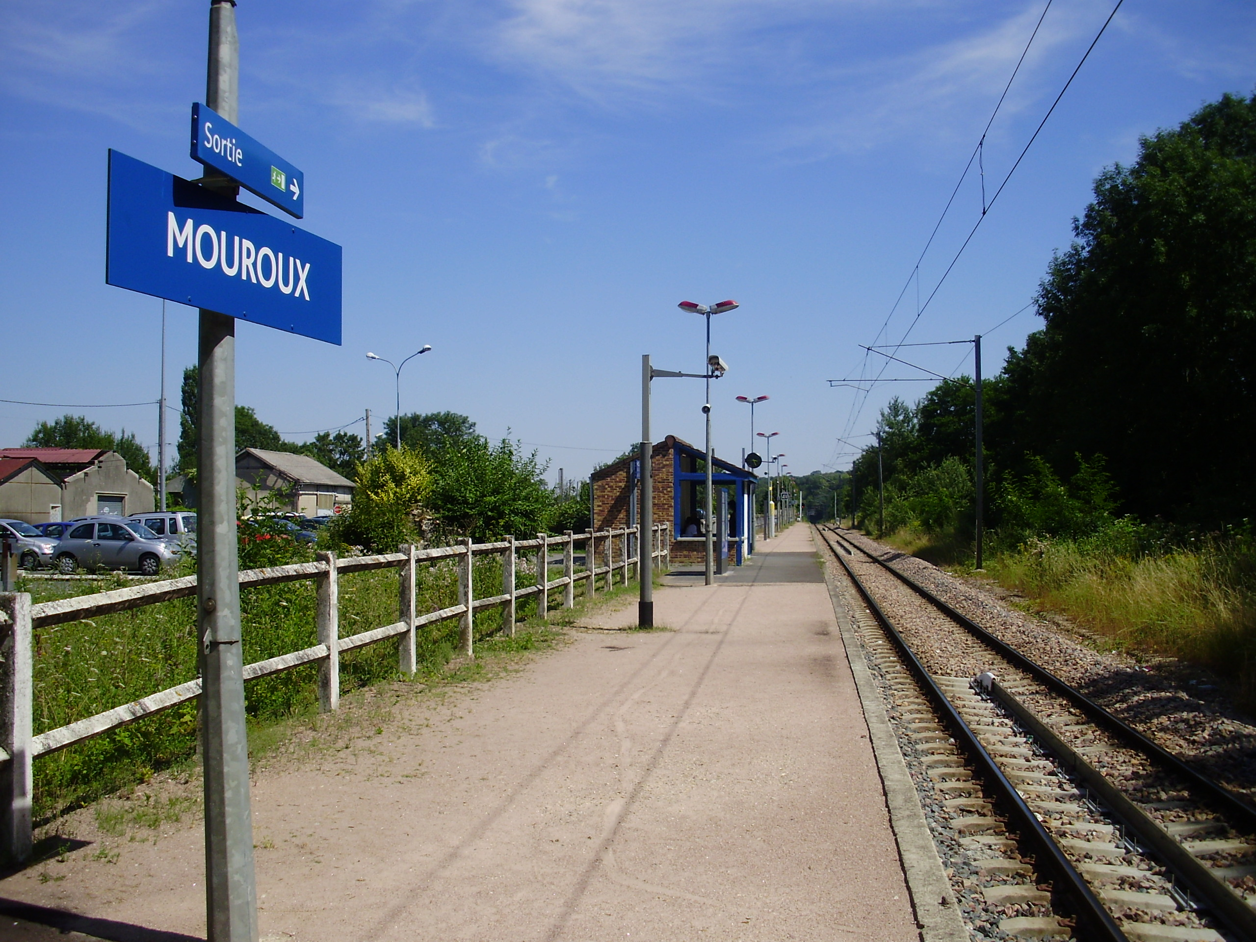 Mouroux station, Seine-et-Marne, France (plateform seen towards Coulommiers)